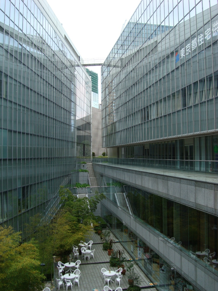 Cosmos Aoyama building, Jingu-mae, Tokyo